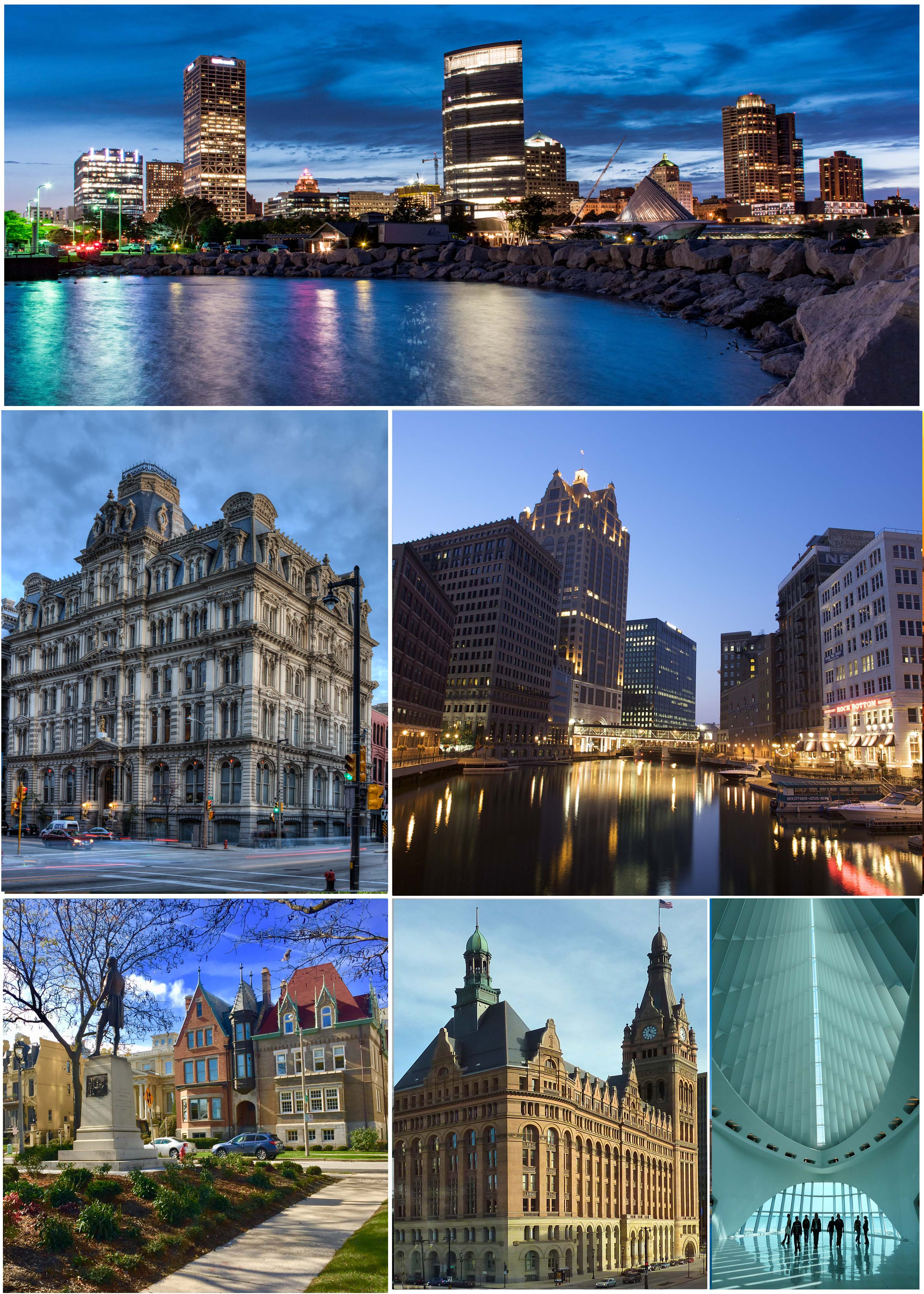 New collage of City of Milwaukee